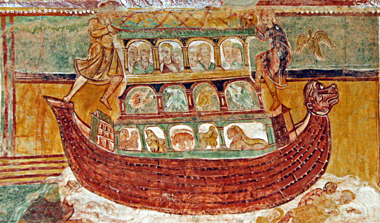 Noah's arch, around 1100